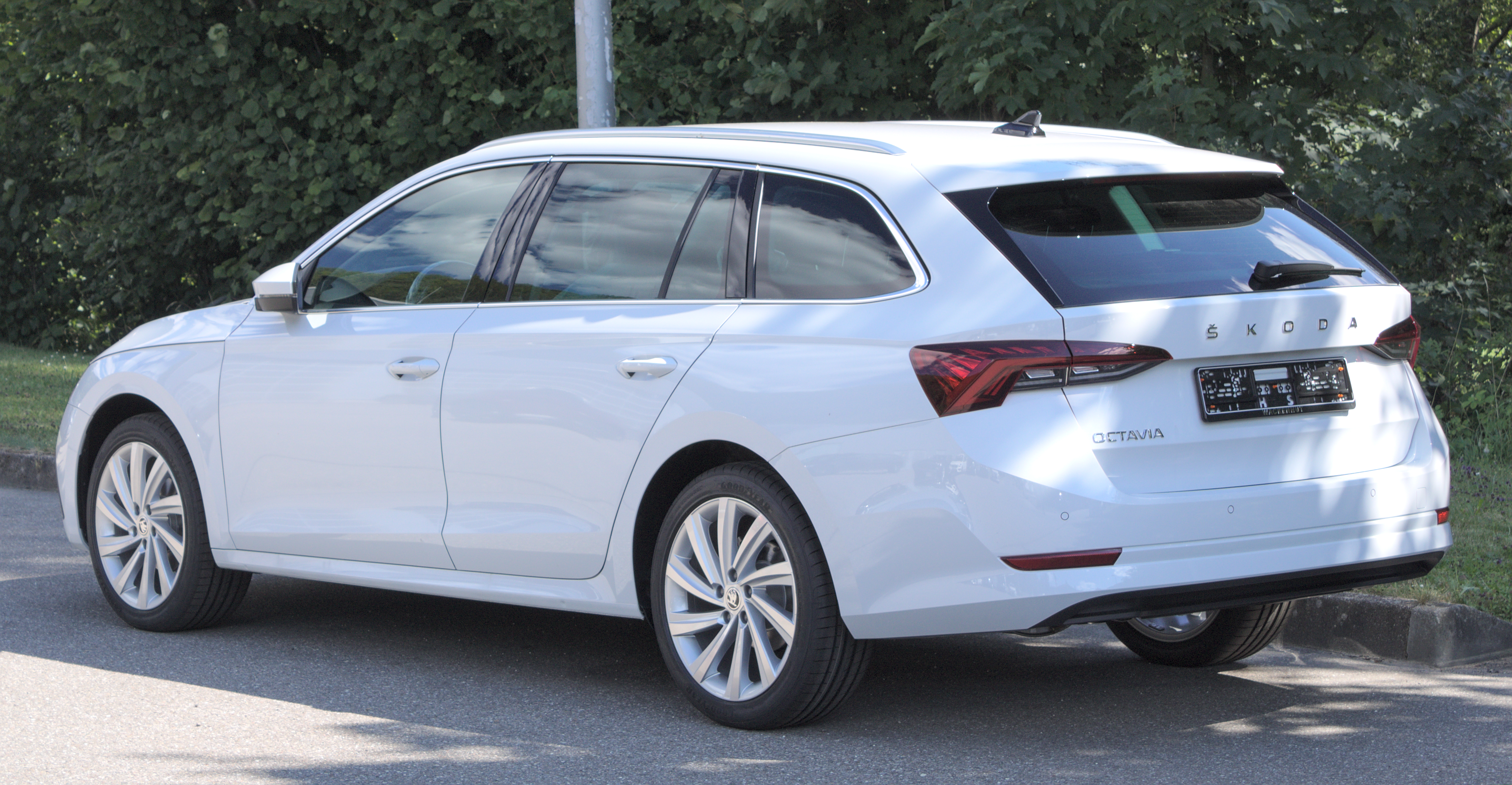 Skoda_Octavia_IV_Combi in Nagold